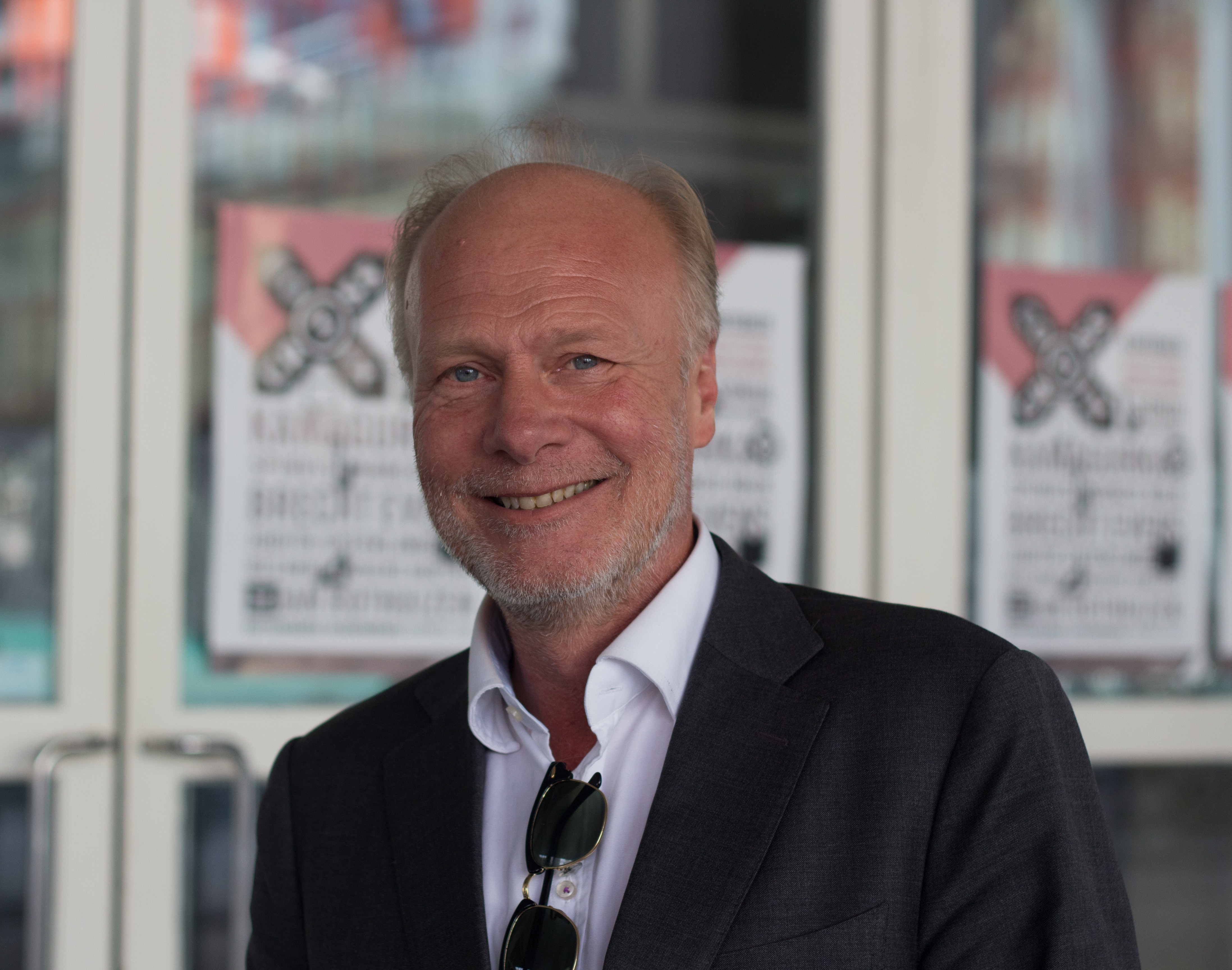 Hanco Kolk at the first edition of the CrossComix Festival